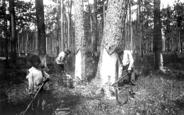 Turpentine workers collecting sap from boxed pines